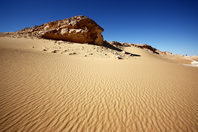 Great Sand Sea of Egypt.